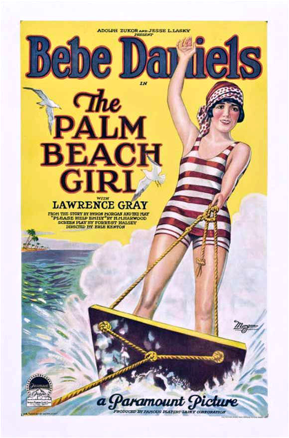 Poster for the 1926 film Palm Beach Girl. A search for renewal was done in both film and artwork for they years [1] and 1954. There were no listings for the film title in film. There were no listings in artwork for Paramount, Lasky, Famous Players or Morgan Litho Co (printed the poster). There's no evidence of continuing copyright for the film or material related to it.